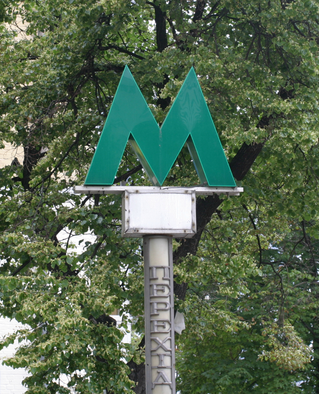 A Kiev Metro station (street level) sign